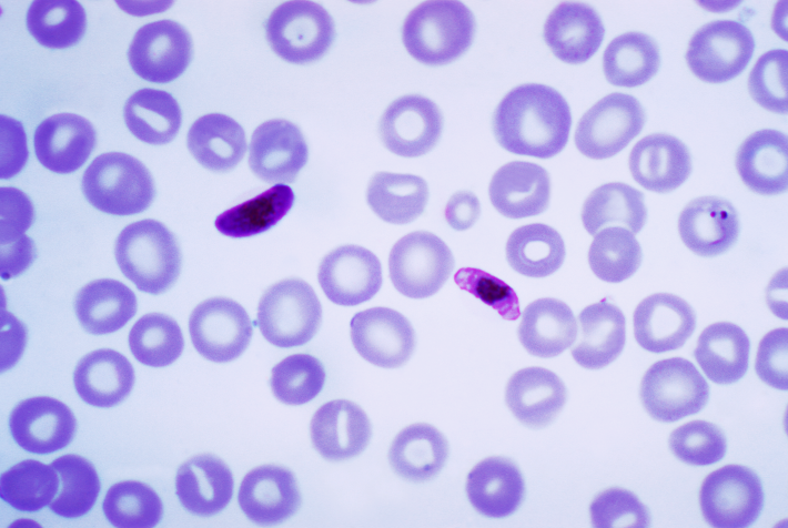 This photomicrograph of a blood smear contains a macro- and microgametocyte of the Plasmodium falciparum parasite. Both macro- and microgametocytes are products of the erythrocytic life cycle. Within a few minutes after the Anopheles sp. vector ingests the gametocytes, microgametocytes develop into microgametes, which are able to fertilize gametes. This image was copied from en. The original description was: Blood smear containing both macro- and micro-gametocytes of Plasmodium falciparum.